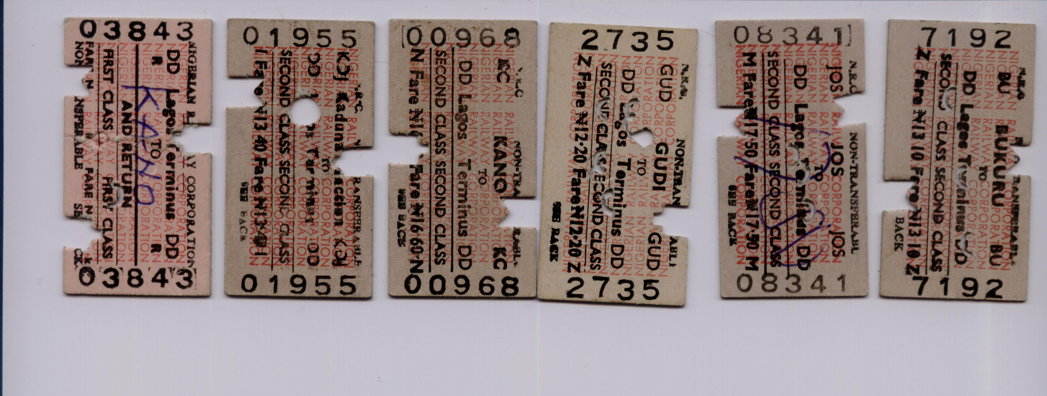 Train tickets of Nigerian railways. All were valid for travel in early 1988.